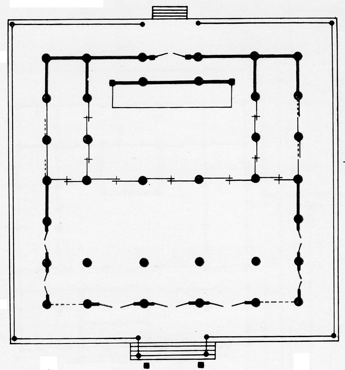 Layout of Chôkyû-ji at Ikoma, Japan